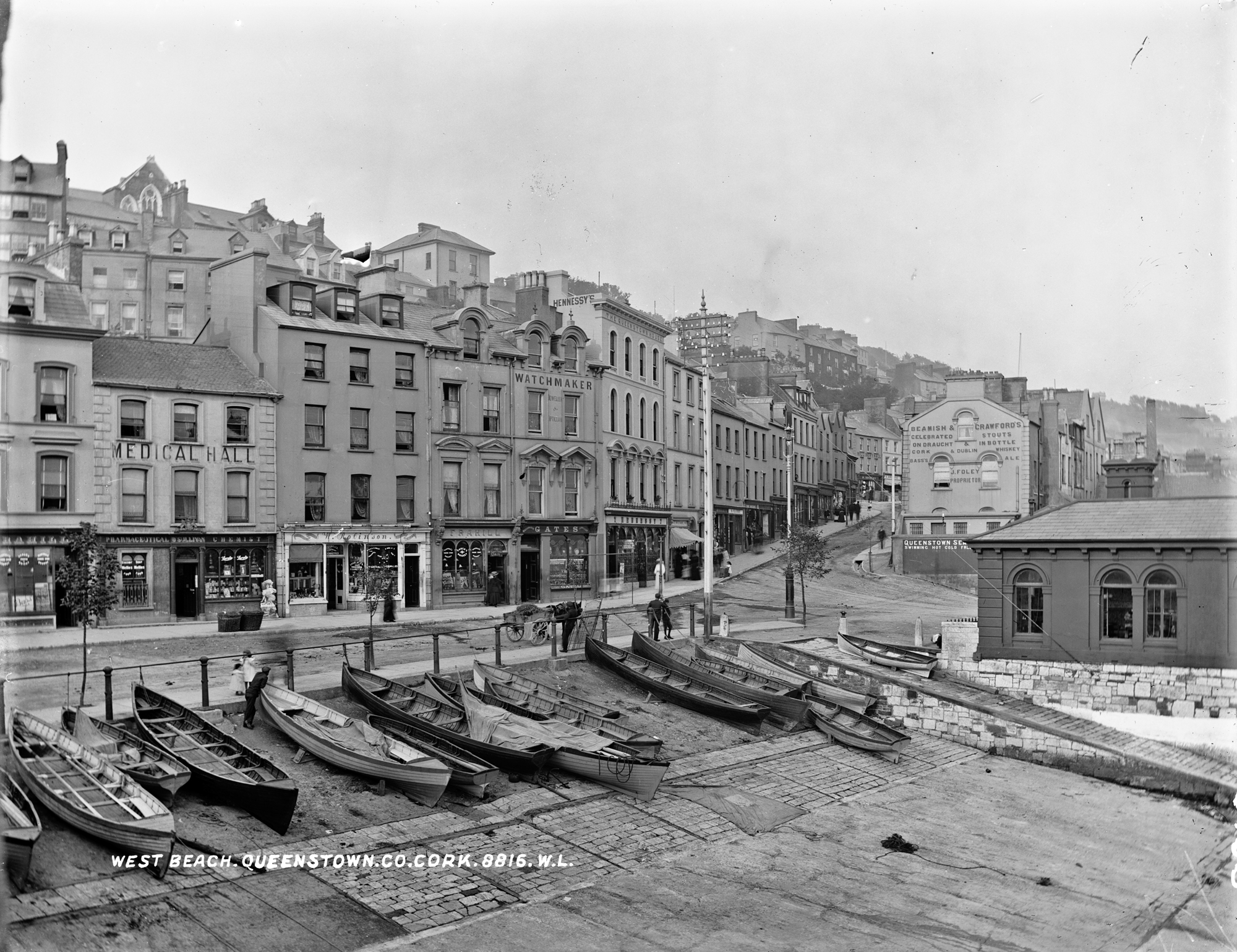 While we have been to Queenstown/Cobh before this fine Lawrence shot of the West Beach has lots of interest. Those skifs and the people around add interest to the scene with occasional ghosts to liven things up! With the help of the businesses (and their advertising), our intrepid contributors have refined the near 50 year range of the catalogue dates to perhaps 5 to 10 years in the early 20th century. The Emerson's Bromo Selzter advert on front of O'Sullivan's chemists was likely put in place around the same time (if a lot less longstanding) as the 1911 Emerson Bromo-Seltzer Tower in the company's home state of Maryland.... Photographer: Robert French Collection: Lawrence Photograph Collection Date:between ca. 1865-1914 (but likely early 20th Century) NLI Ref: L_ROY_08816 You can also view this image, and many thousands of others, on the NLI’s catalogue at